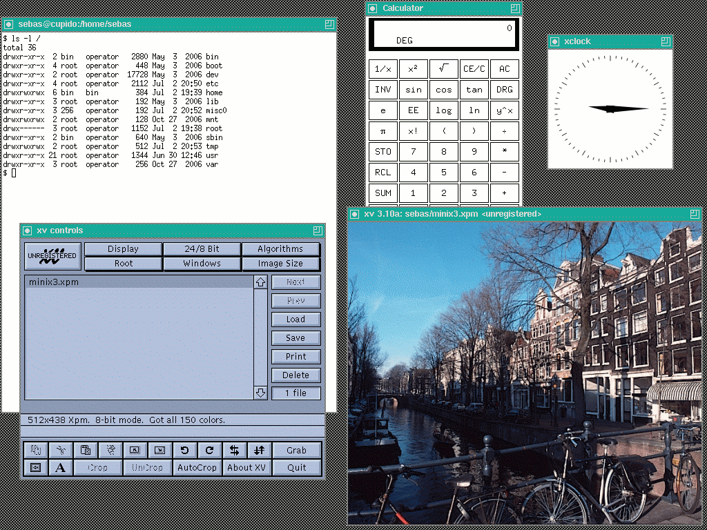 With the addition of X11, Minix 3 marks the transition away from a text-only system. Here, TWM Window Manager and some applications. By Sebastián Bronzini.